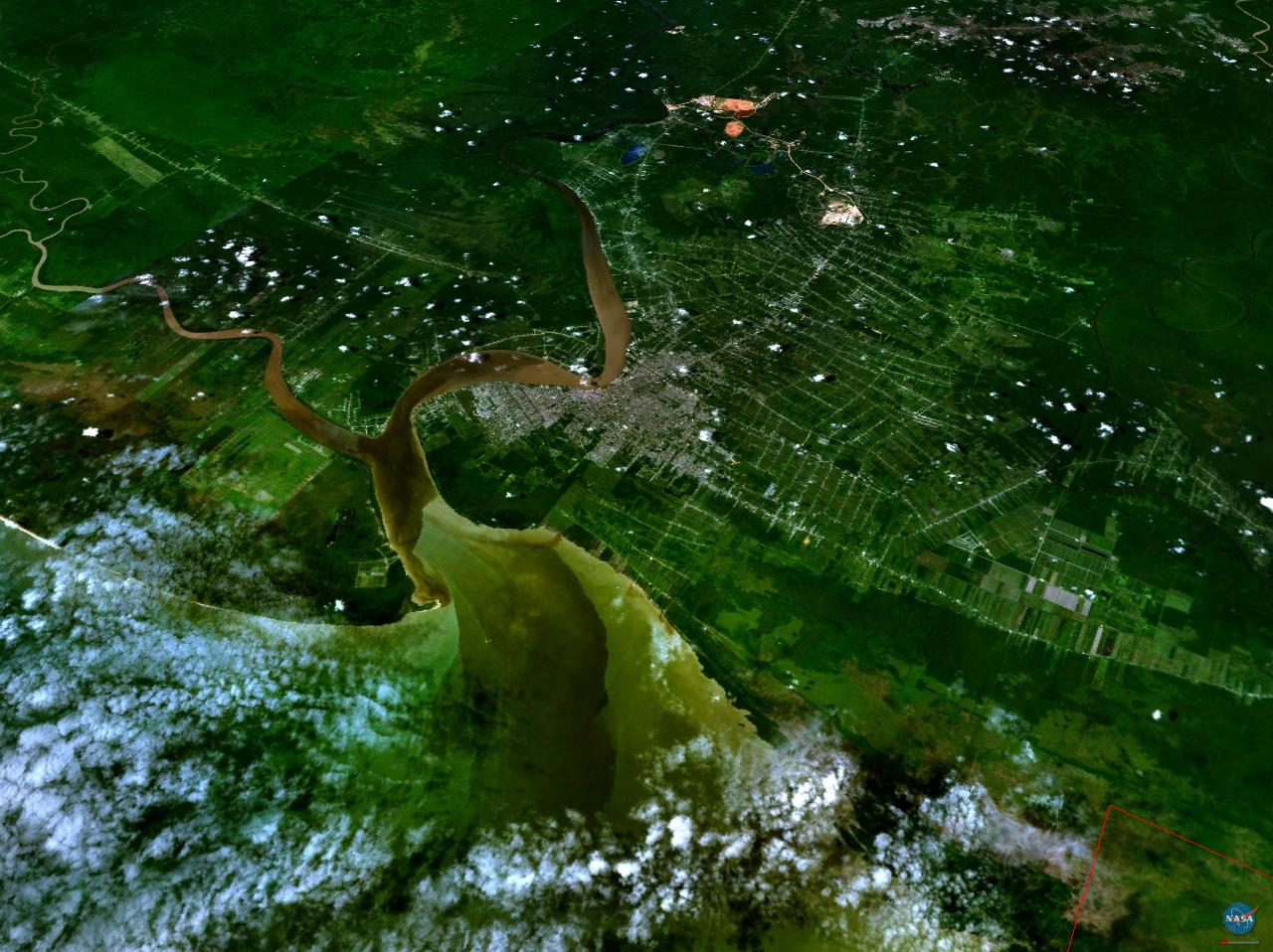 NASA World Wind screenshot showing Paramaribo